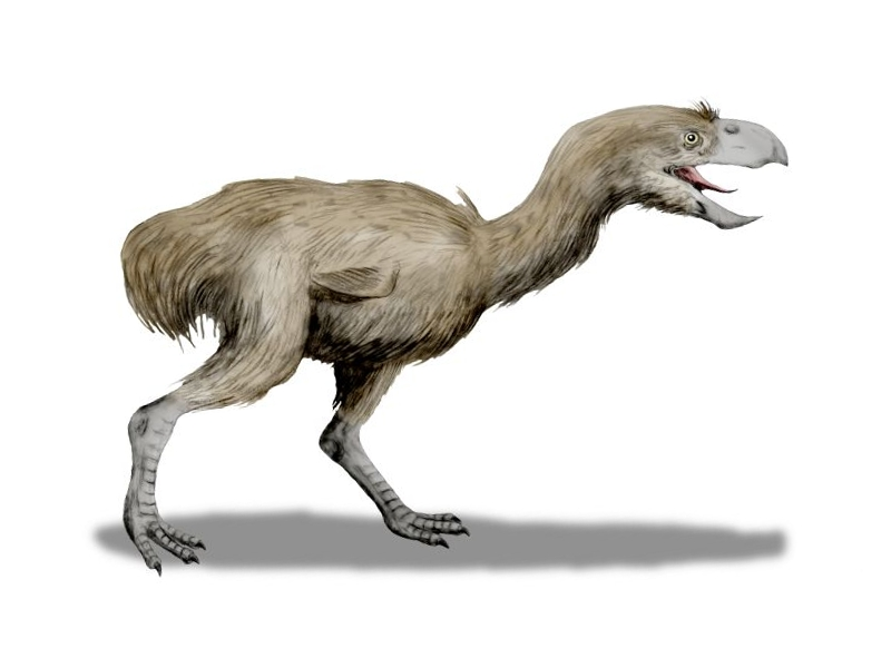 Paraphysornis brasiliensis, a terror bird from the Early Miocene of Brazil, pencil drawing, digital coloring